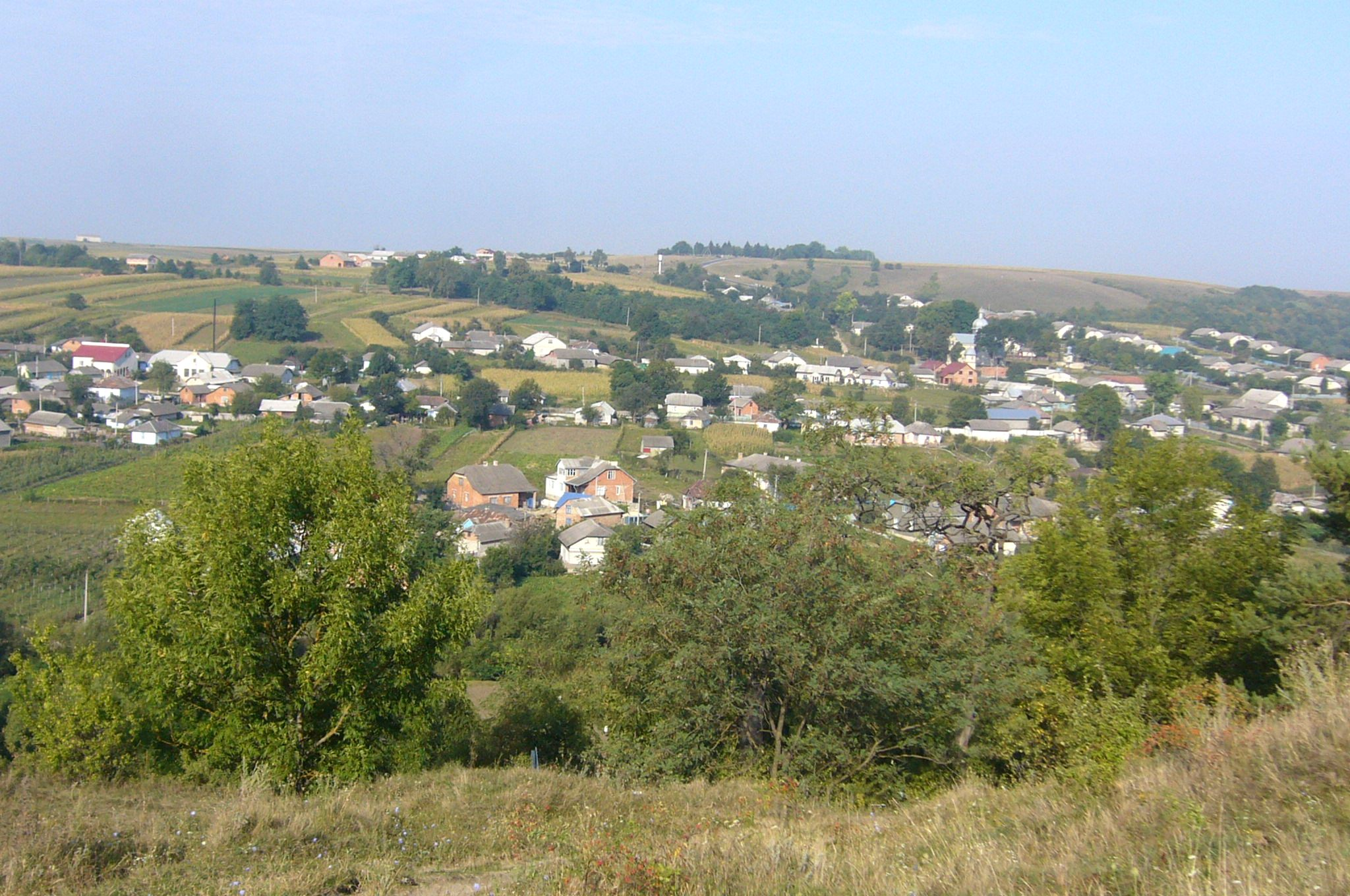 Verhniakivtsi, view from the road to Borshchiv